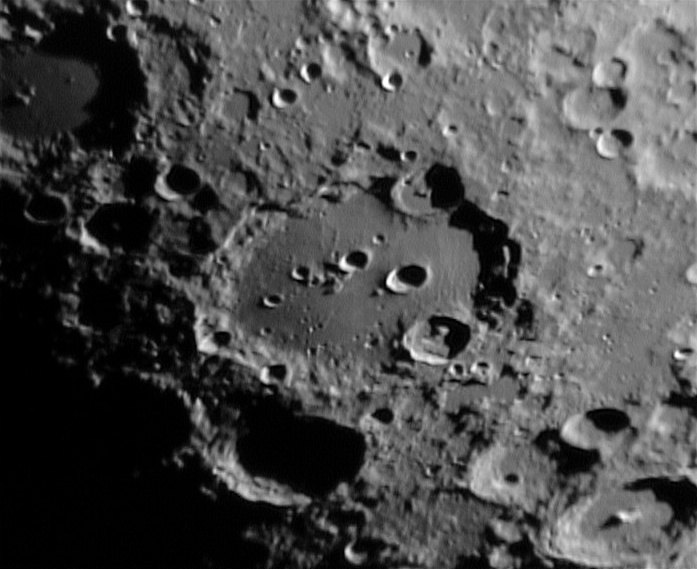 Lunar crater Clavius. Image taken at the Johannes-Kepler-Observatory, Linz, Austria, on 2004 March 30, using a Mintron 12V1C-EX B&W video camera on a 500mm f/10 Cassegrain telescope (focal legth 5000mm).